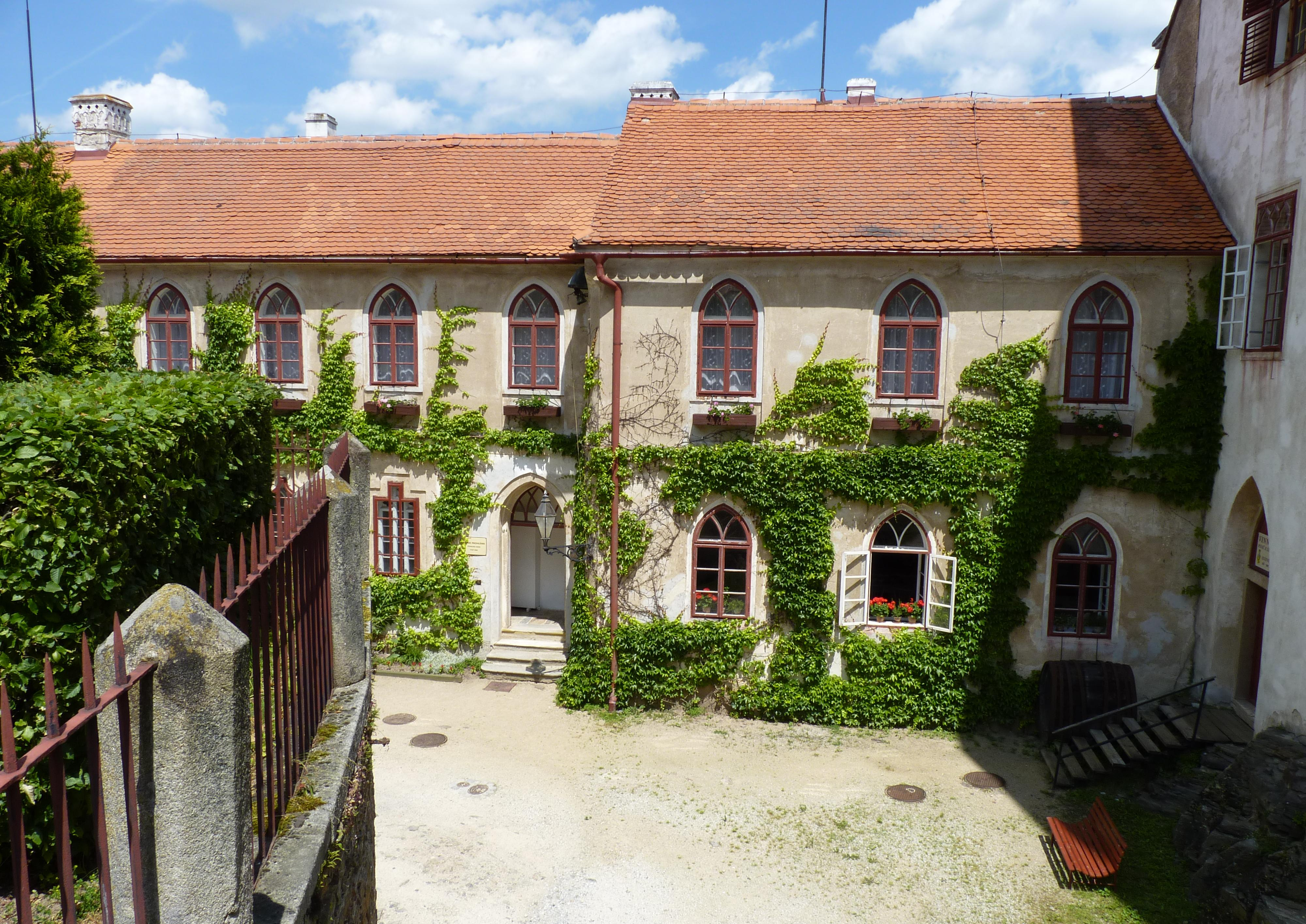 Bítov Castle, Znojmo District, South Moravian Region, Czech Republic